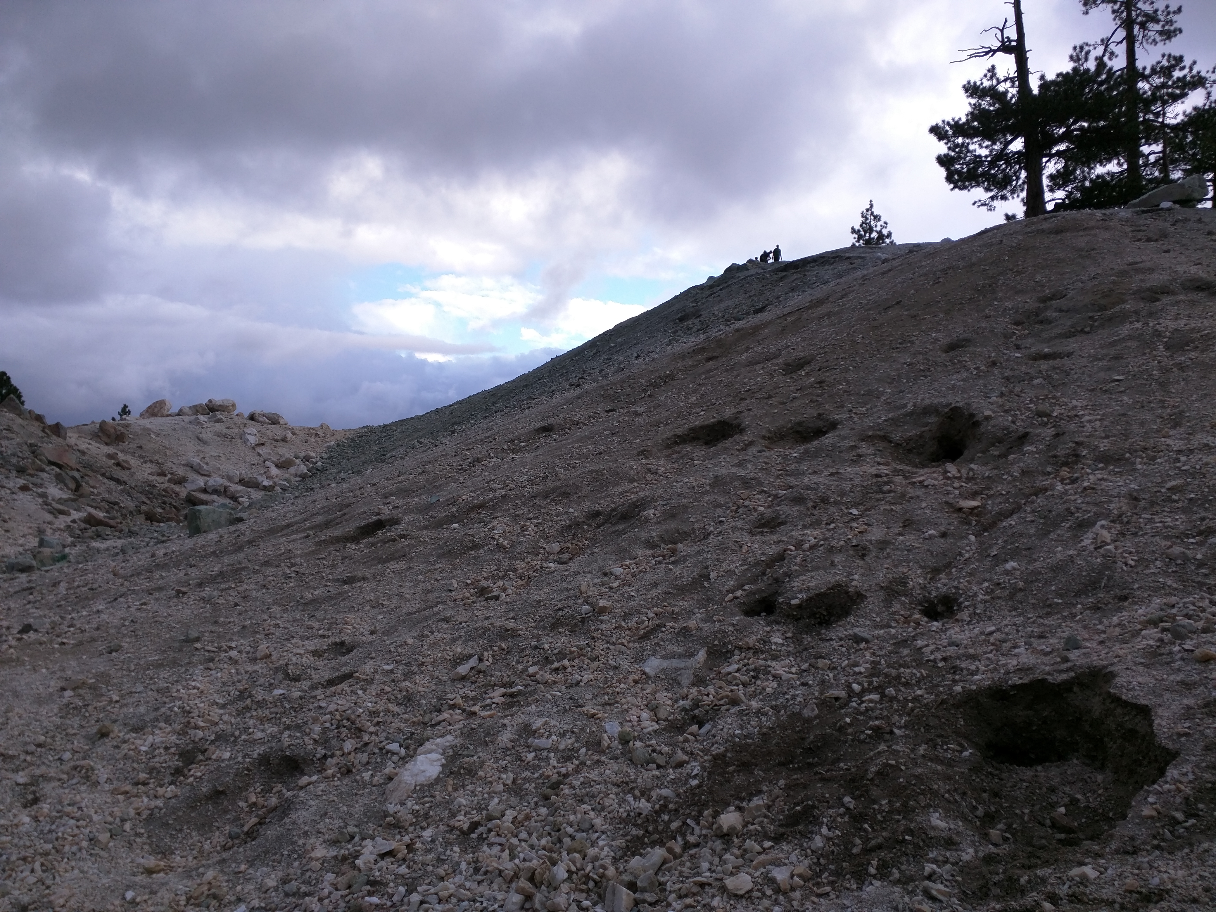 The back half of the Crystal Mine (which is much larger)